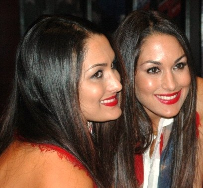 Brie and Nikki Bella at WWE Tribute to the Troops Event on December 10, 2011 in Fayetteville, North Carolina